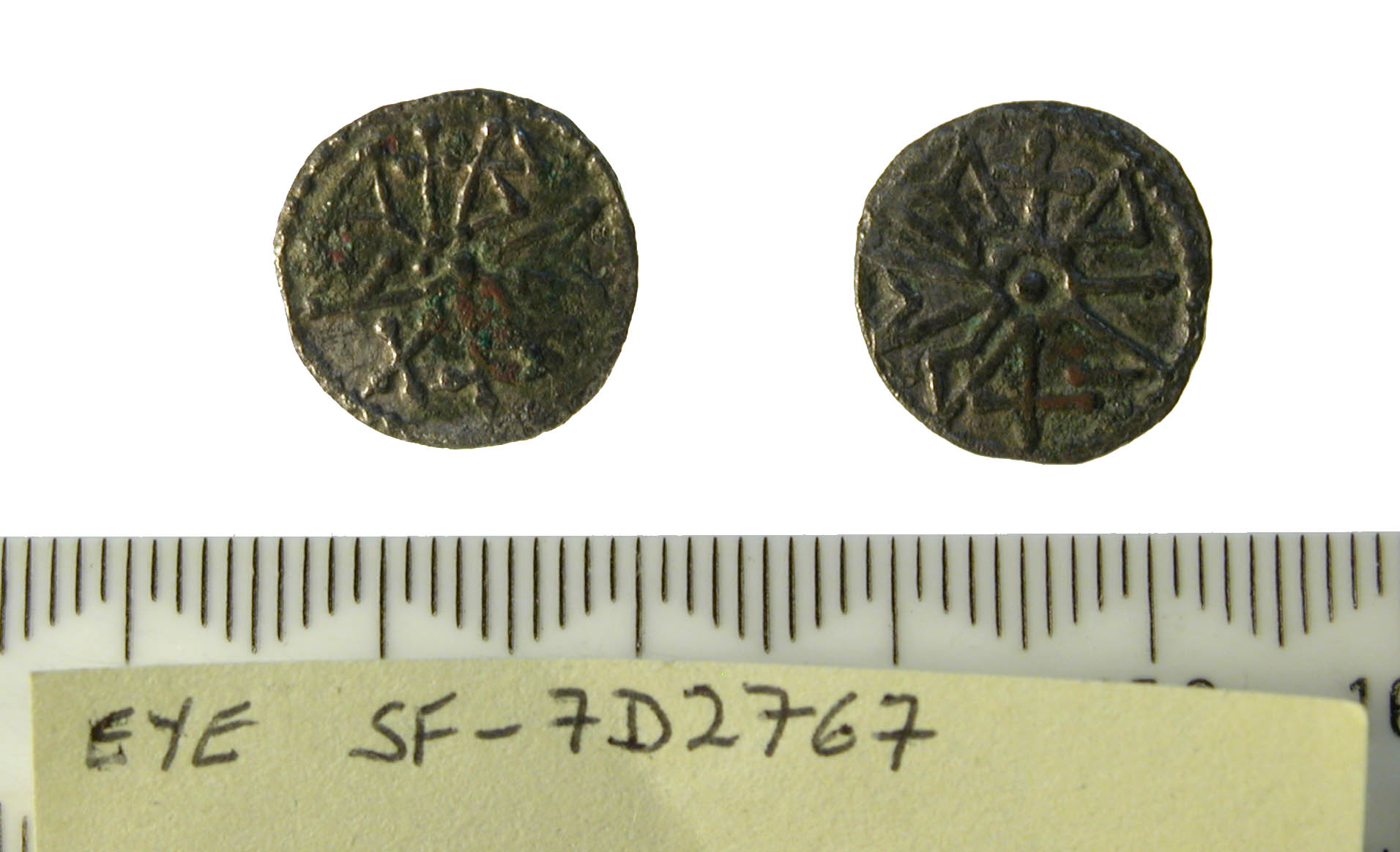 A silver sceat of Beonna, moneyer Wilred, see North 430/2. [EMC 2006.0332]